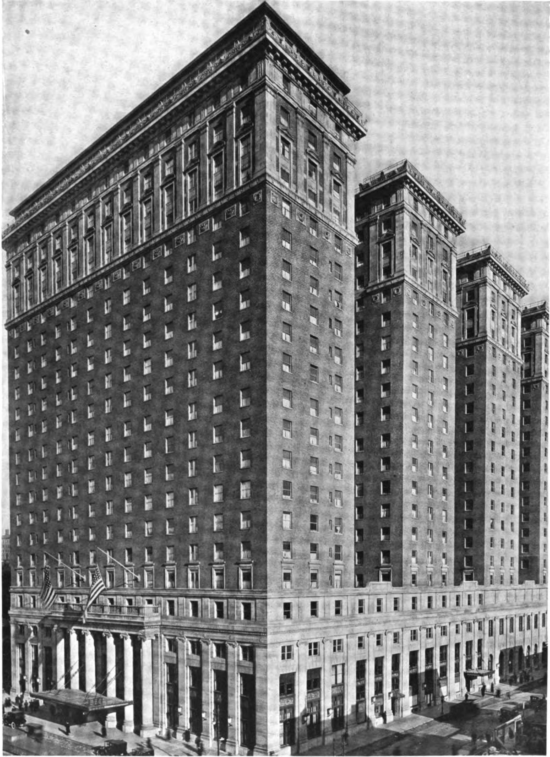 The general view of Hotel Pennsylvania, NY circa 1919